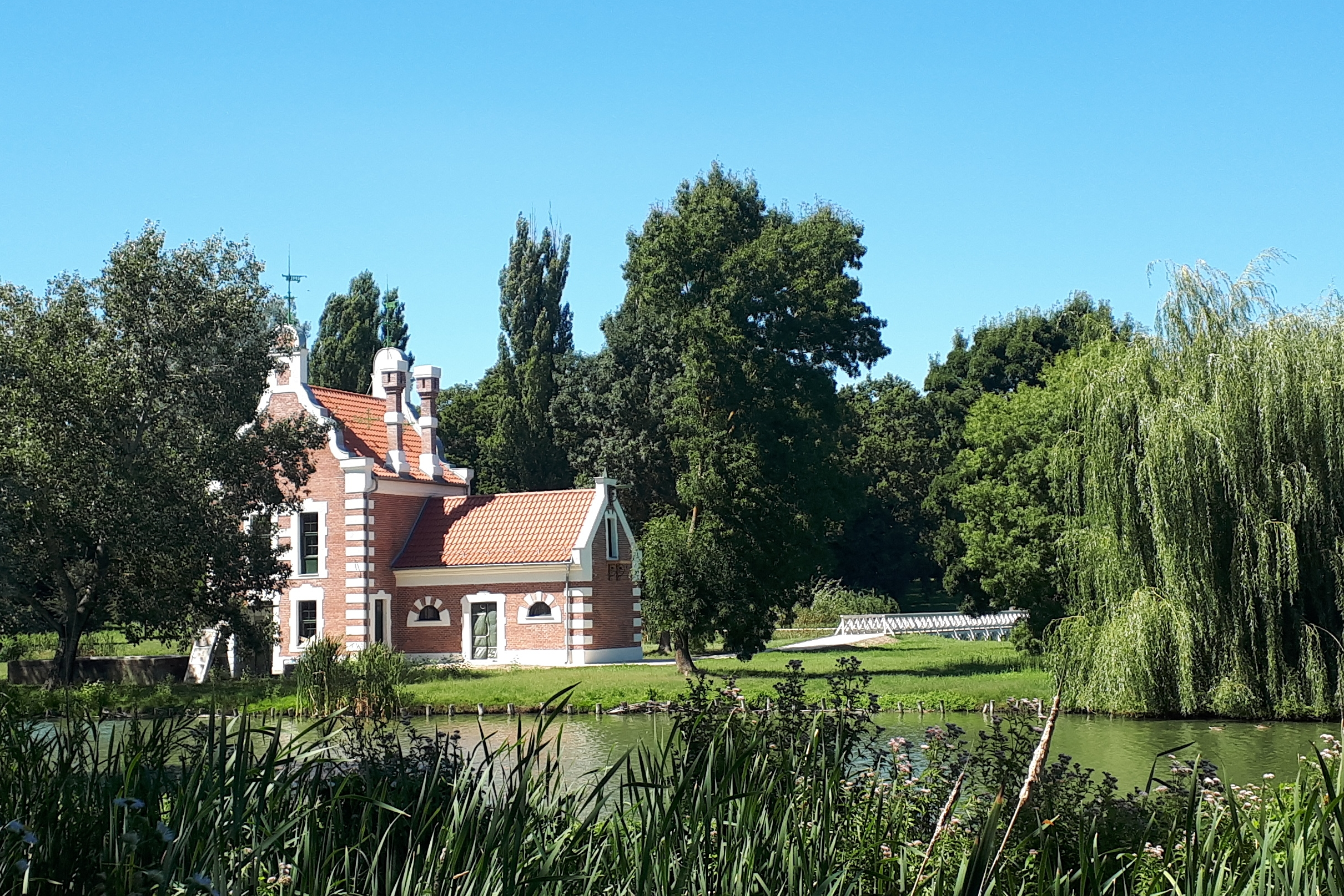 Park view of the dutch house within the Festetics castle park (Dég, Hungary) from the south.